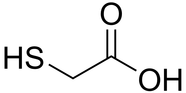 chemical structure of thioglycolic acid